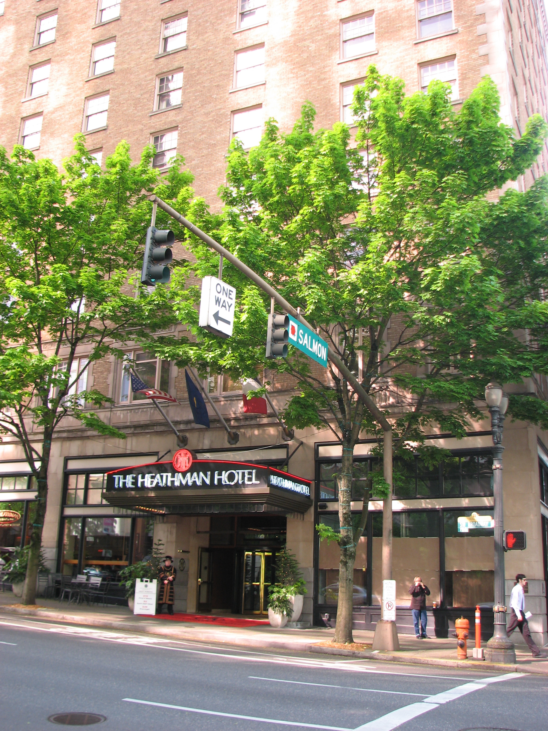 The façade of the Heathman Hotel on Broadway in Portland, Oregon, United States.